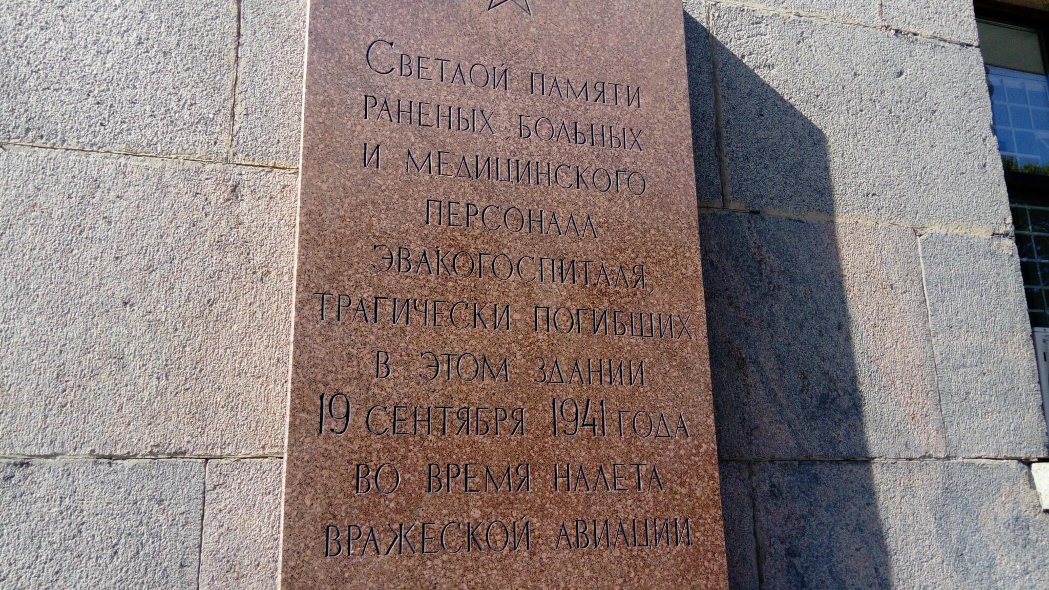 Memorial plaque devoted to people who were killed during Gearman aeroplane attack in 19 september 1941 on Leningrad hospital